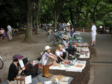 On a Sunday afternoon vendors line the foot path at Inokashira Park in Kichijoji